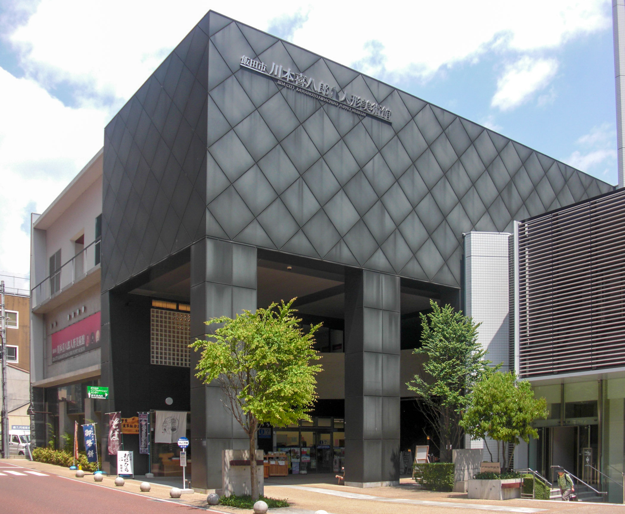 The Iida City Kawamoto Kihachiro Puppet Museum in Iida, Nagano Prefecture, Japan